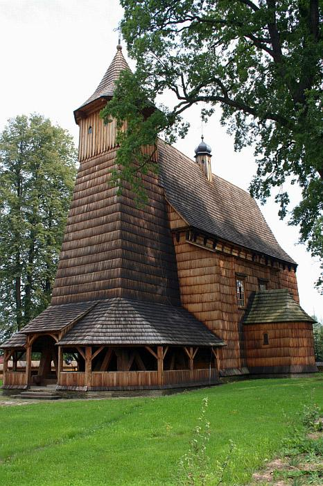 Wooden church of St. Dorothy in Trzcinica from the late 15th century